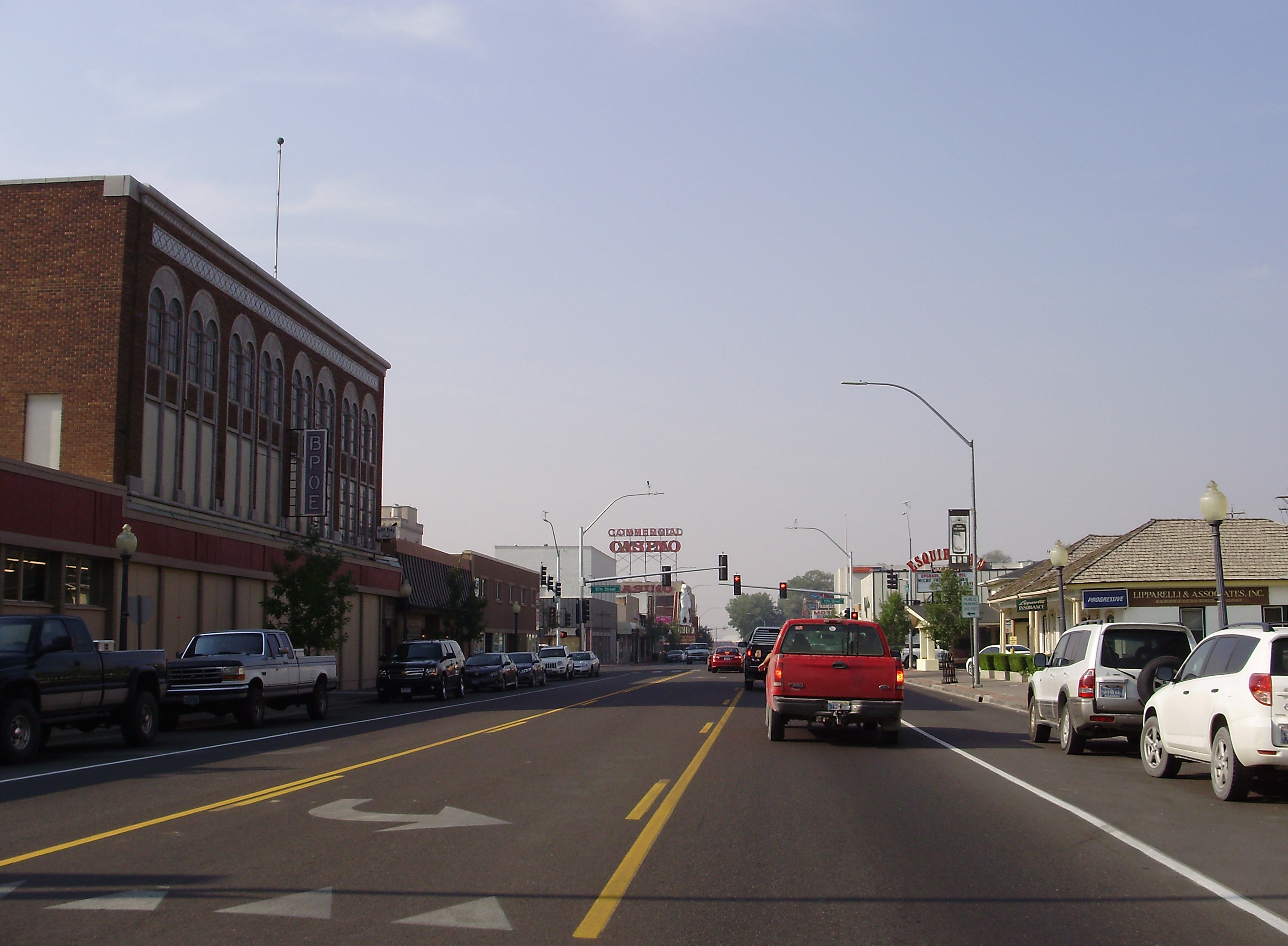 View west along Idaho Street (Interstate 80 Business Loop) in downtown Elko, Nevada